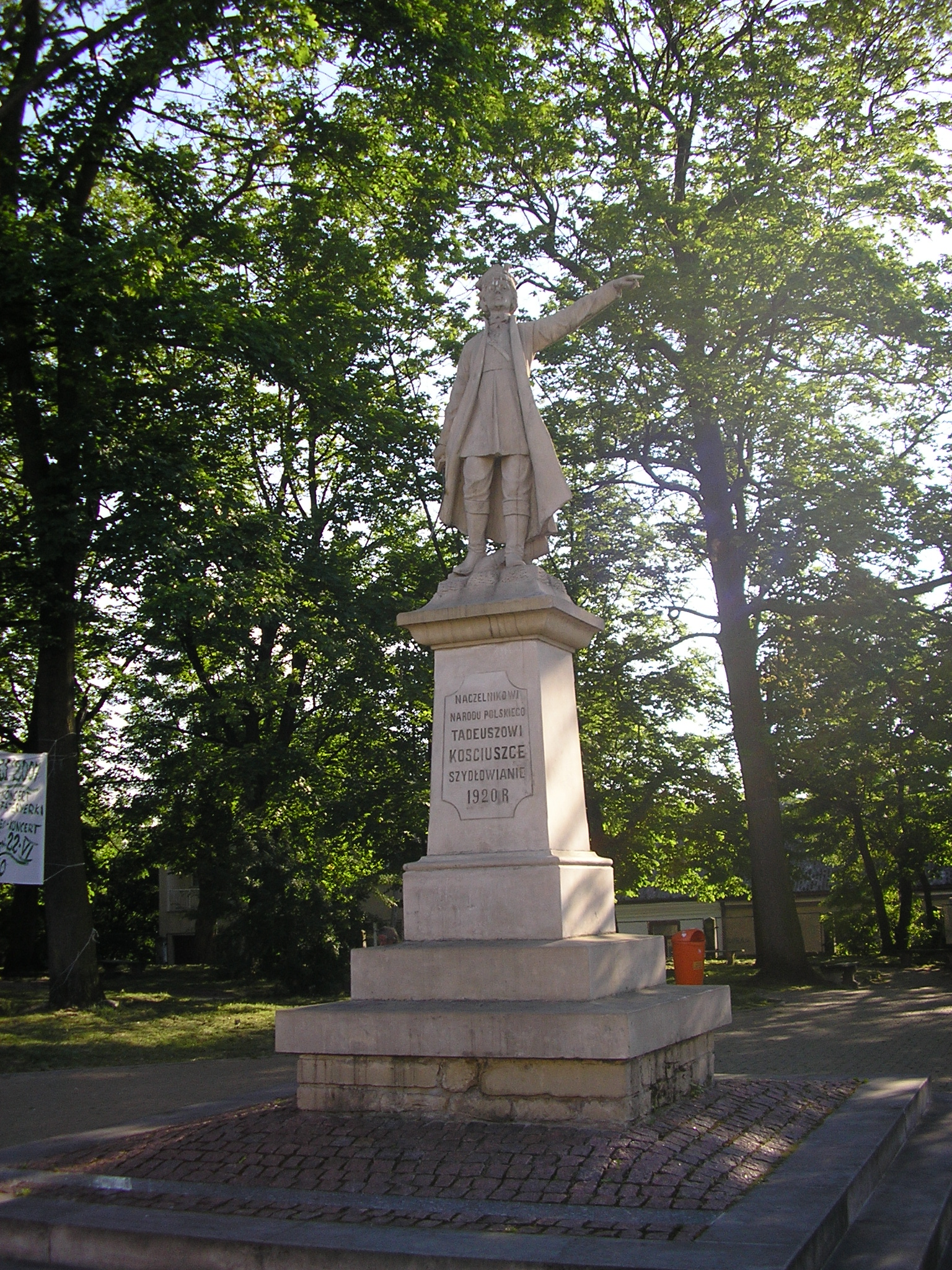 Tadeusz Kosciuszko monument in Szydłowiec